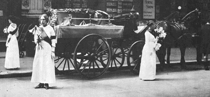 Funeral of Emily Davison, June 1913.